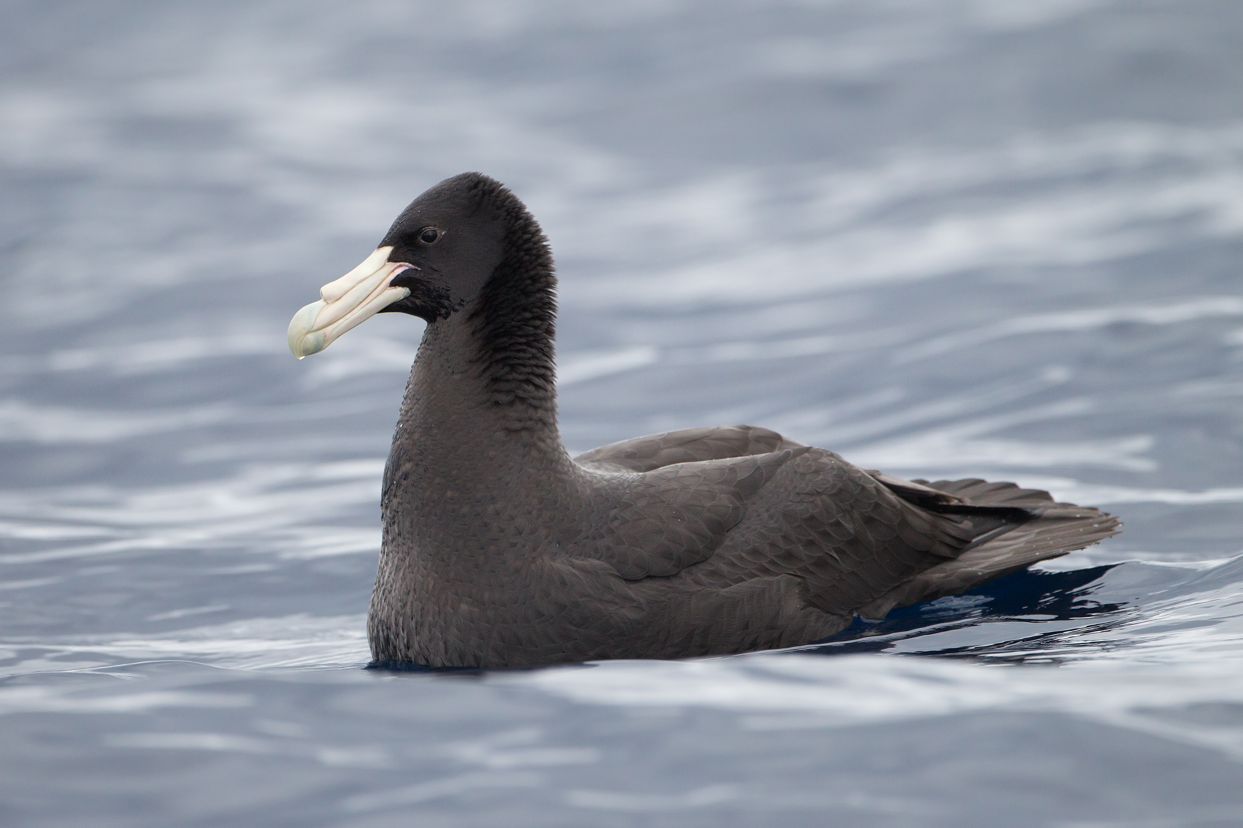 Immature Southern Giant Petrel (Macronectes giganteus), East of the Tasman Peninsula, Tasmania, Australia